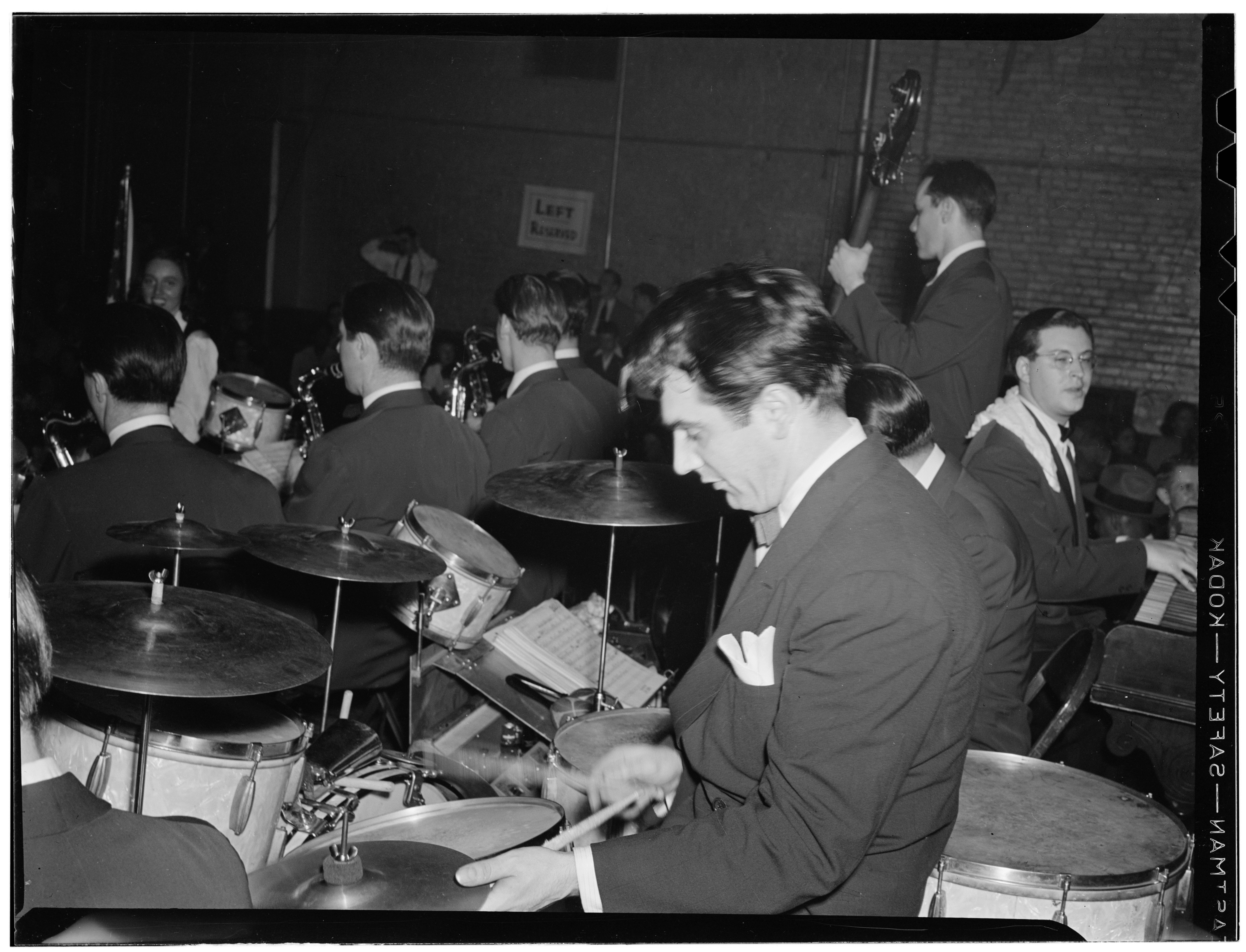 Gene Krupa, Washington, D.C., between 1938 and 1948 (Photograph by William P. Gottlieb)